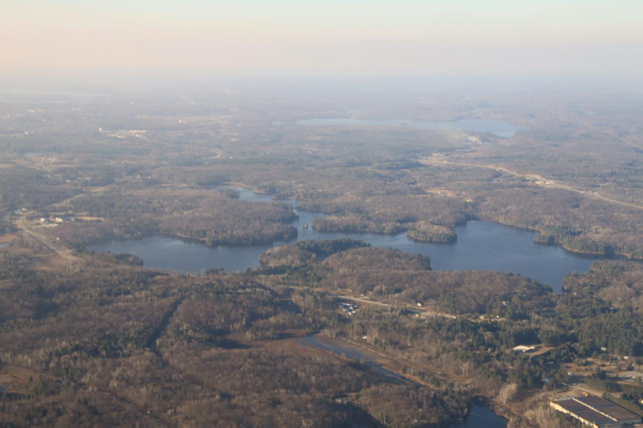 Oastler Lake in Parry Sound District, Ontario, Canada. The Boyne River flows into the lake at the bottom, and flows out at the upper left. Oastler Lake Provincial Park is on the lower centre shore of the lake where the Boyne River flows in